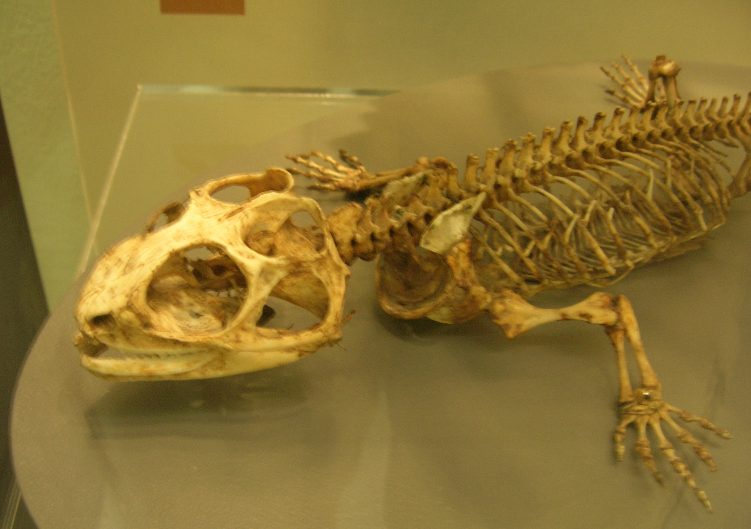 Kingdom: Animalia Phylum: Chordata Class: Sauropsida Order: Sphenodontia Auckland War Memorial Museum i102505 126